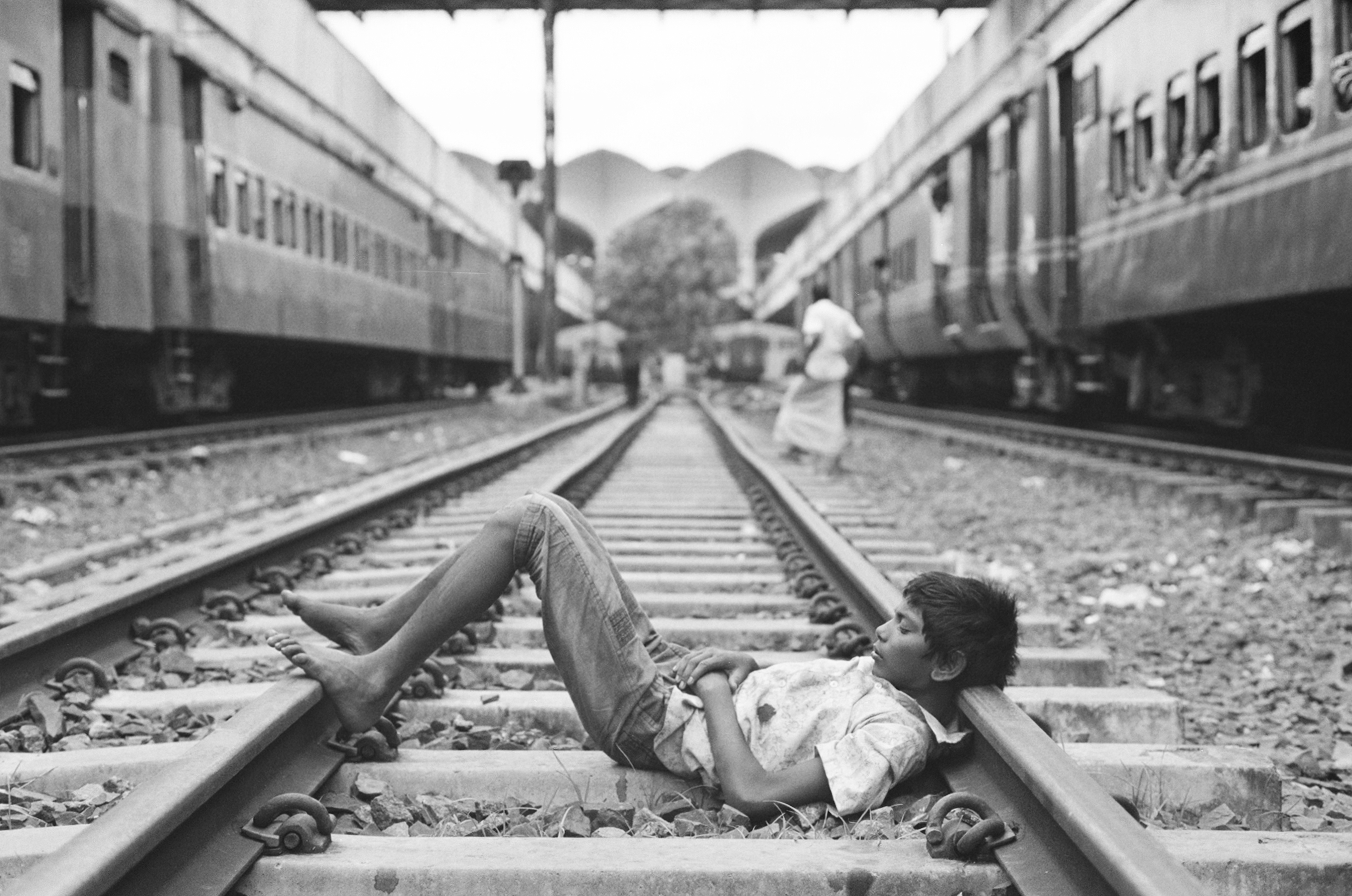 Street child at Dhaka , Bangladesh